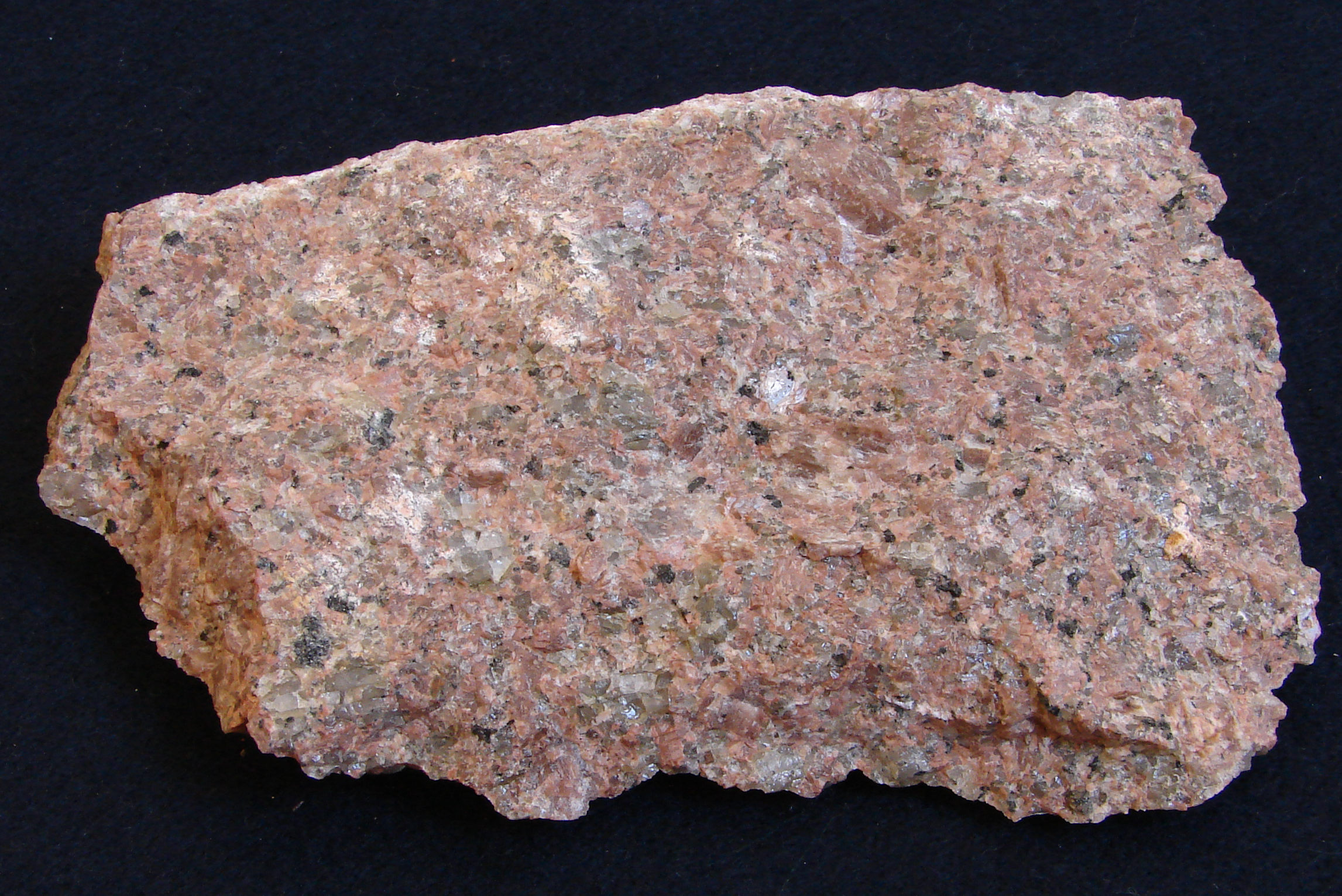 Itu granite. It has a rapakivi texture (k-feldspar rimmed by oligoclase) and is the same as the Moutonne rock. Salto, Brasil